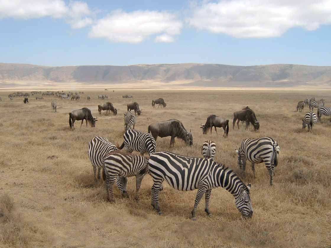 Zebras grazing with wildebeest.